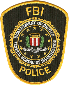 The patch of the Federal Bureau of Investigation Police (FBIP).